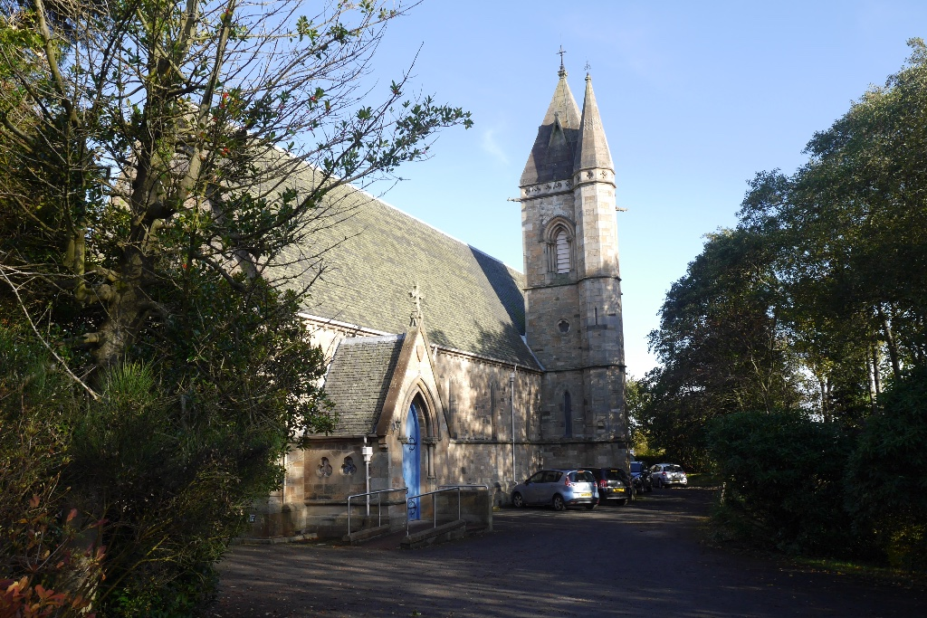 St Cyprian